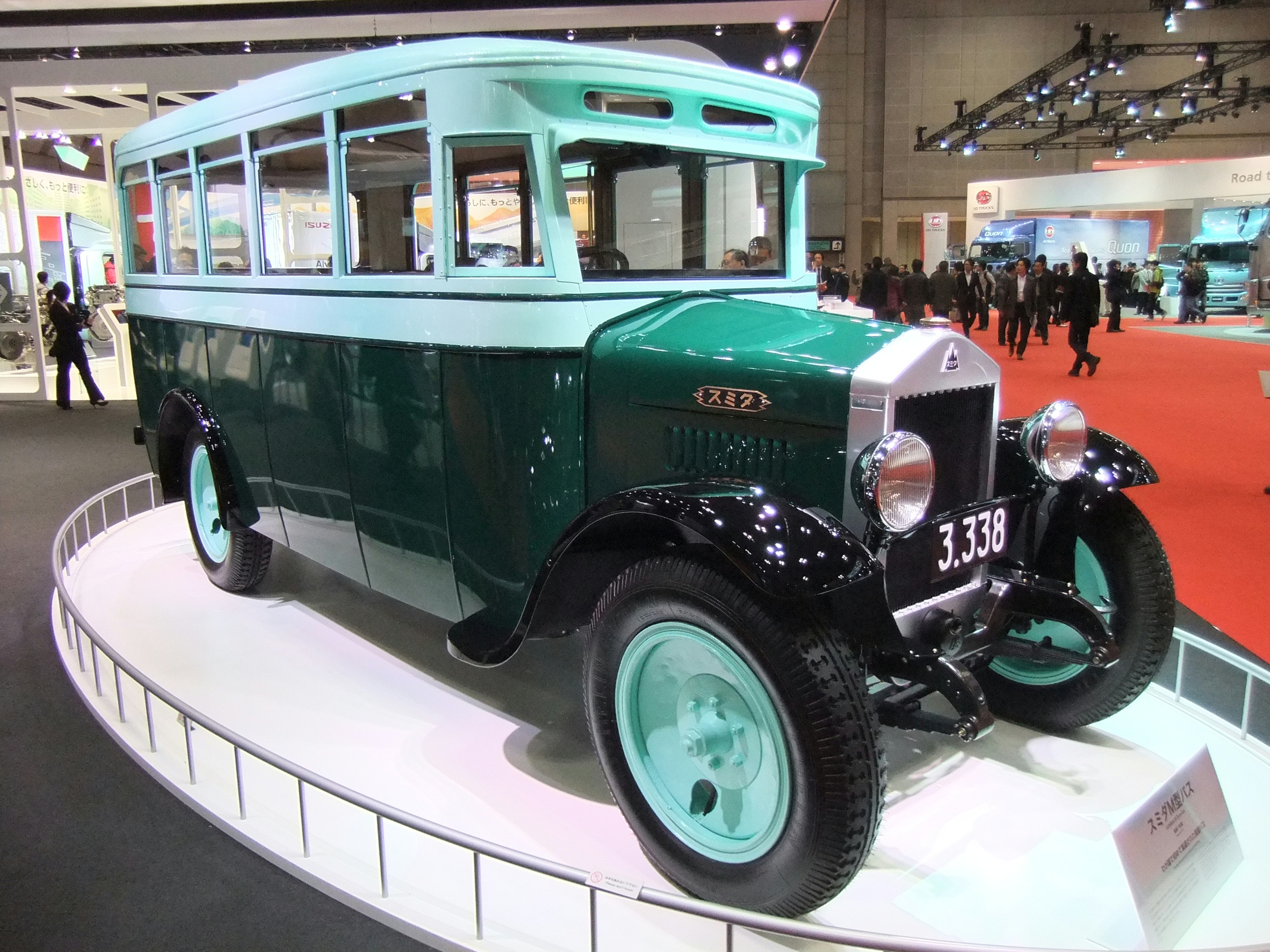 SUMIDA M-type BUS (Front), Isuzu's predecessor companies produced IHI,(Manufactured by 1932)